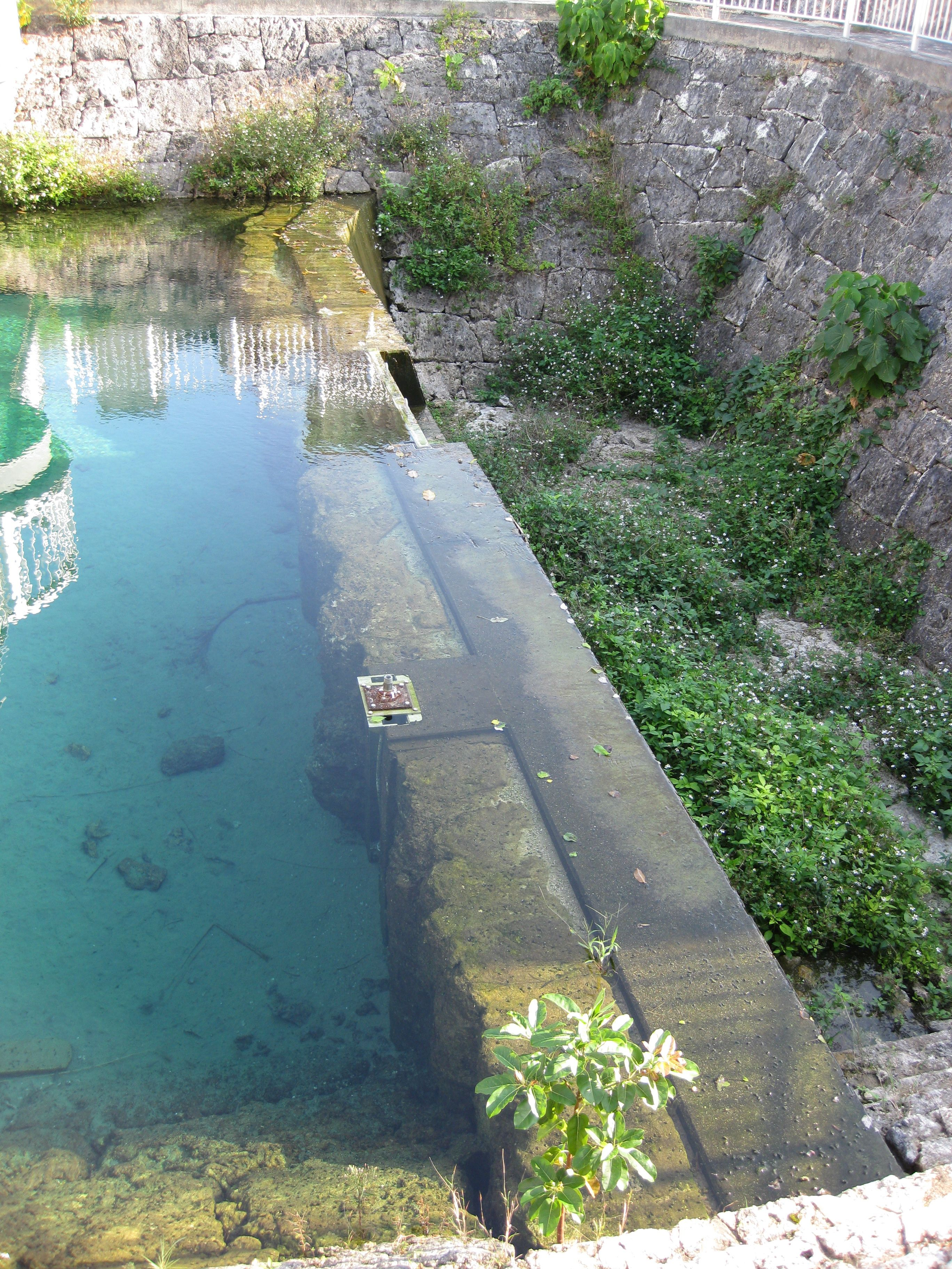 Cut-off Wall of Fukuzato Underground Dam in Okinawa, Japan